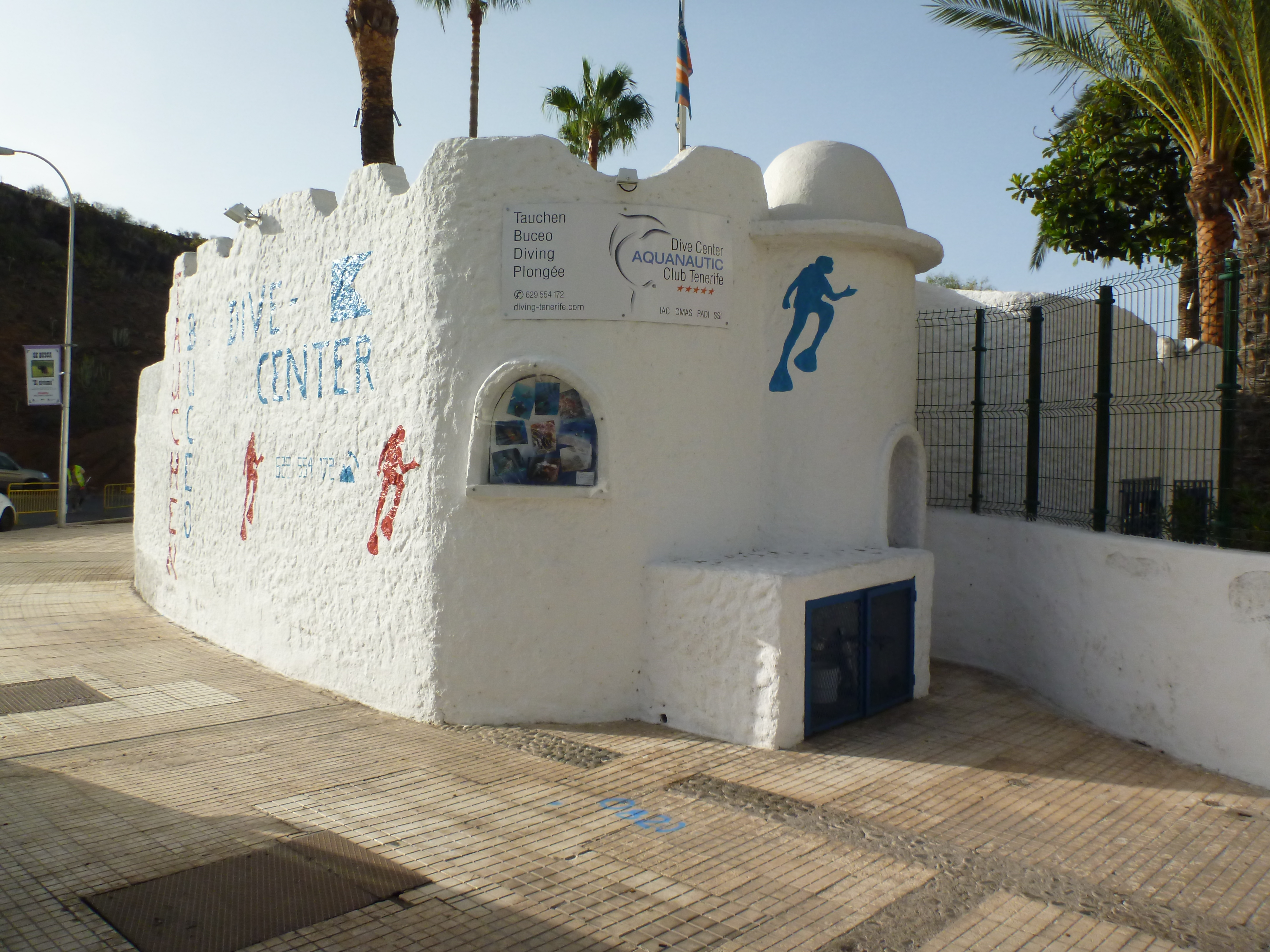 Dive Center in Playa Paraiso (Adeje), Tenerife